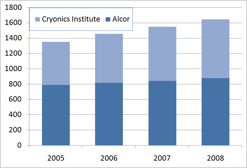 Dynamics of popularity of cryonics. Abscissa - years, ordinate - number of members of mentioned organizations.